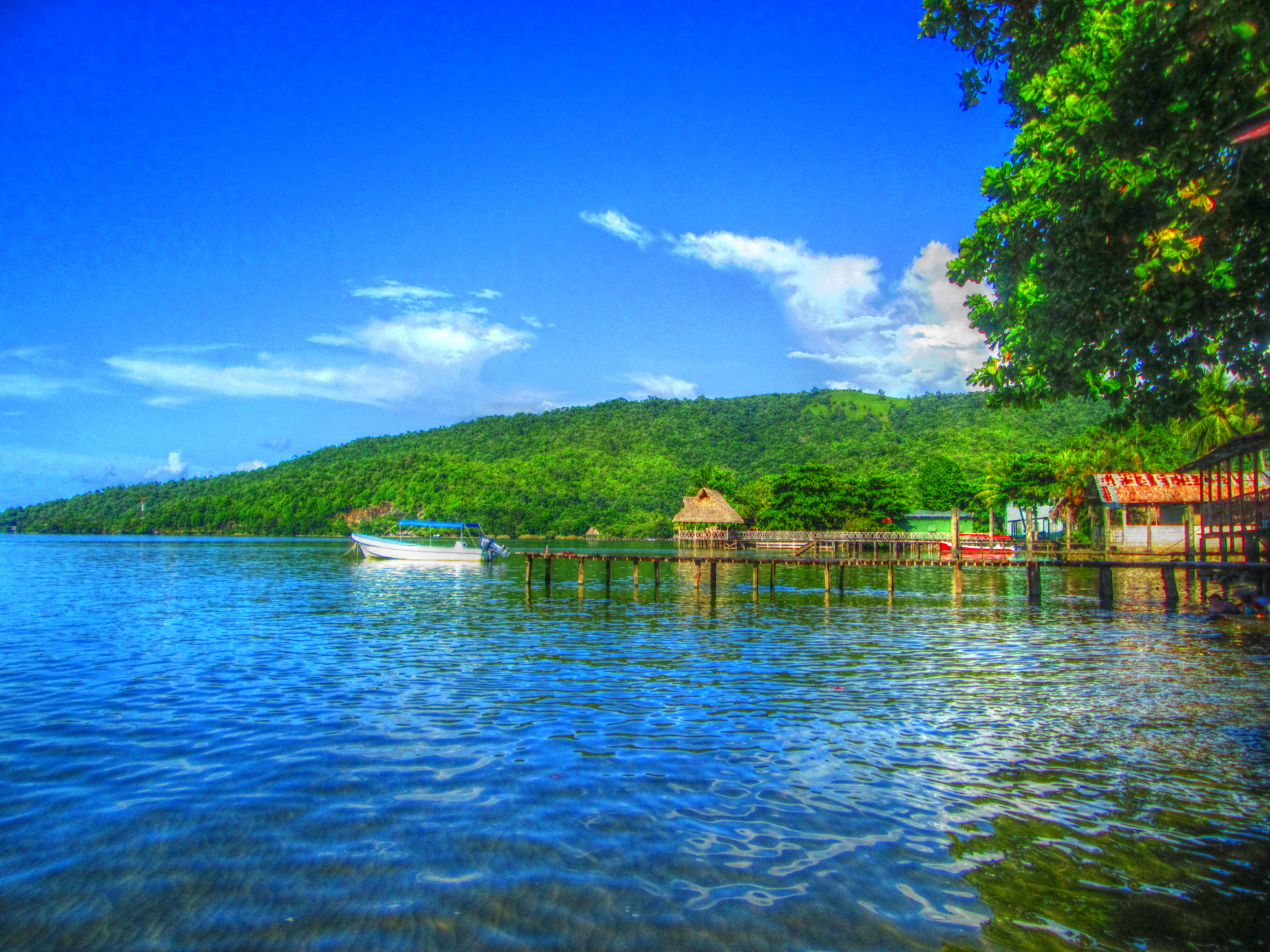 Beach in Izabal, Guatemala - North America